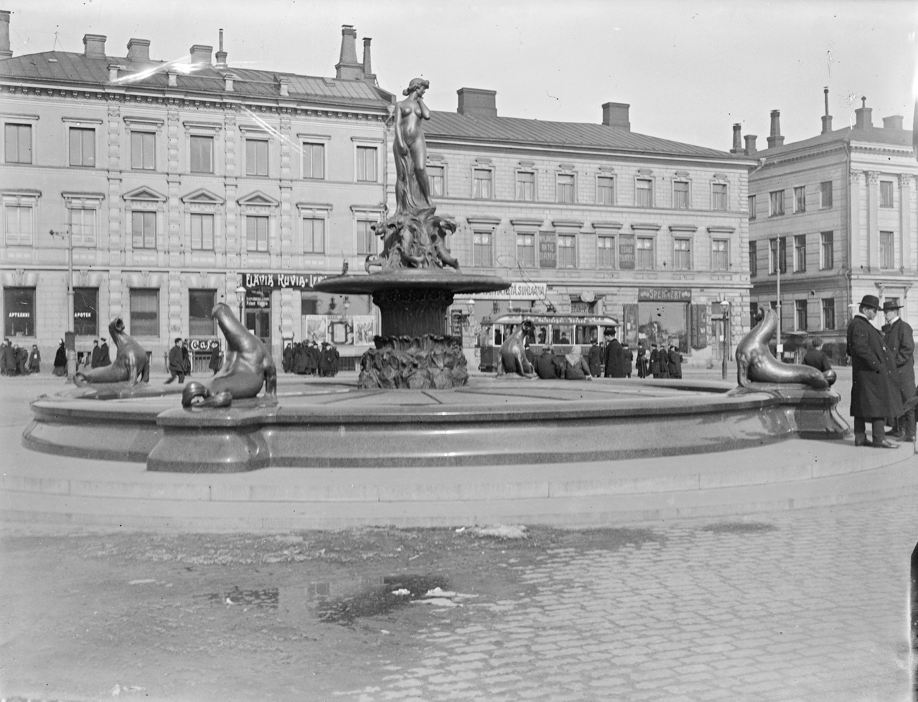 Springbrunnen Havis Amanda på Salutorget. Skulptören Ville Vallgrens mest kända verk avtäcktes 1908 och väckte genast många reaktioner. Havis Amanda blev ändå tidigt en omtyckt symbol för staden. Foto Gustaf Sandberg. sls1849_134 Ur boken Helsingfors i ord och bild Utgiven av Svenska litteratursällskapet i Finland, 2012